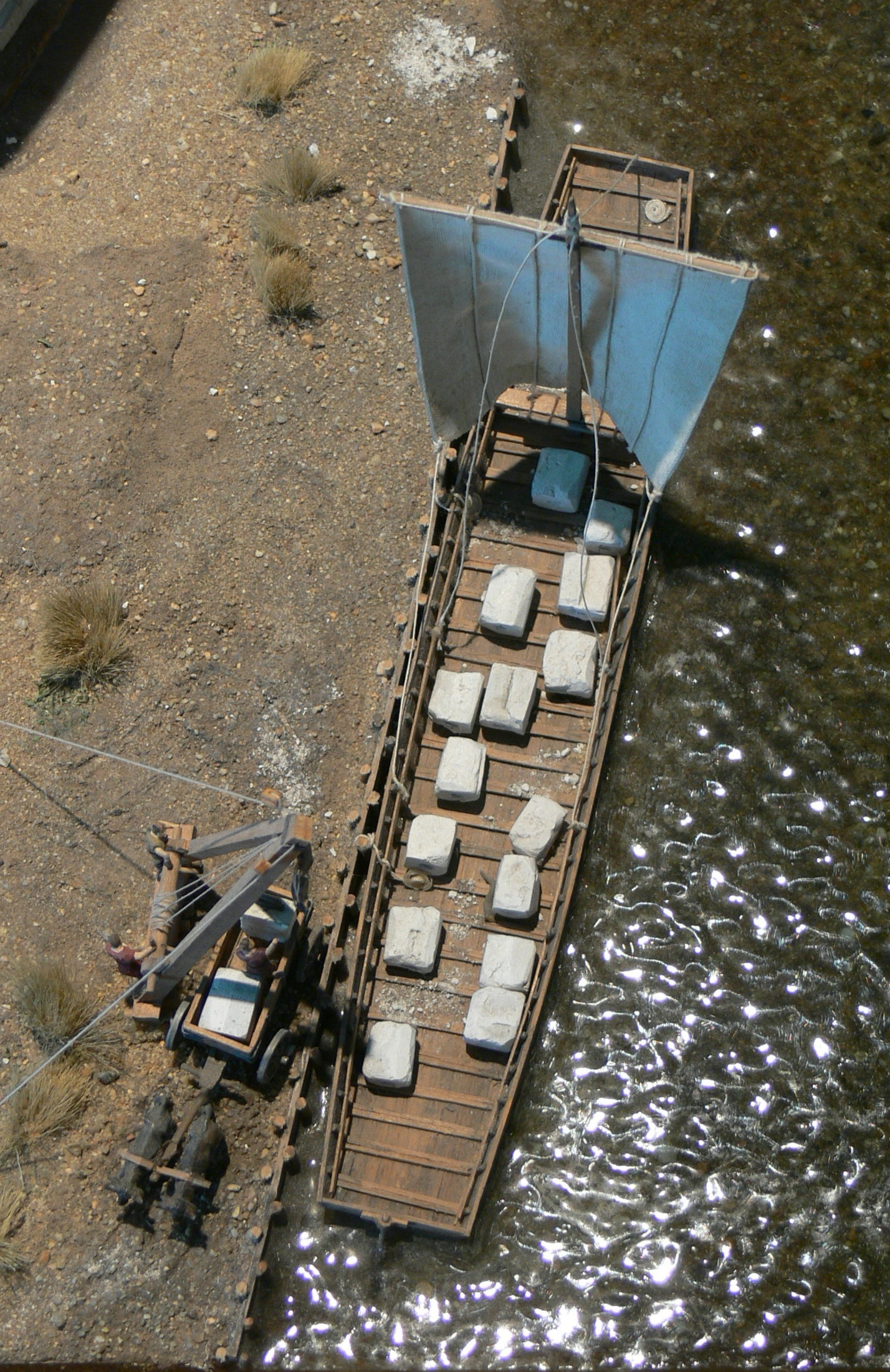 Celtic Museum Manching ( Bavaria ). Modell of the ancient Roman bridge ( 165 AD ) at Stepperg - Construction of the bridge: Transport ship with stones.